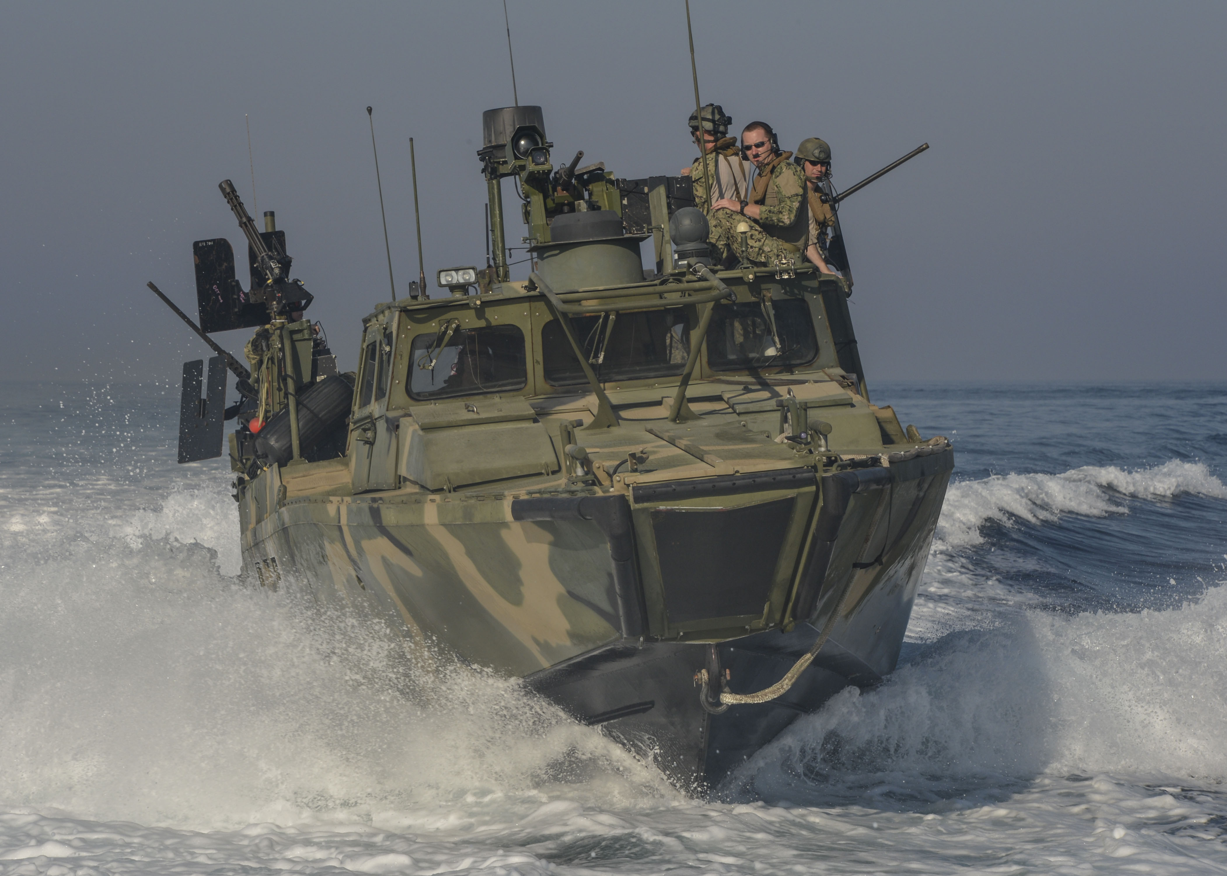 A Riverine Command Boat, assigned to Commander, Task Group 56.7.4, Coastal Riverine Squadron 4, transits through open water during exercise Spartan Kopis. Spartan Kopis is a U.S. 5th Fleet training event that validates the effectiveness of using joint aviation assets in a maritime environment, as well as exercising joint force command and control structure and communications. (U.S. Navy photo by Mass Communication Specialist 1st Class Peter Lewis/Released)